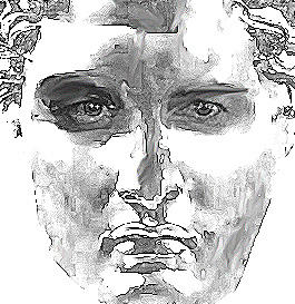 Artistic interpretation of Hephaistion based on ancient portrait bronze head, as of 2007 housed in the Prado Museum, Madrid.